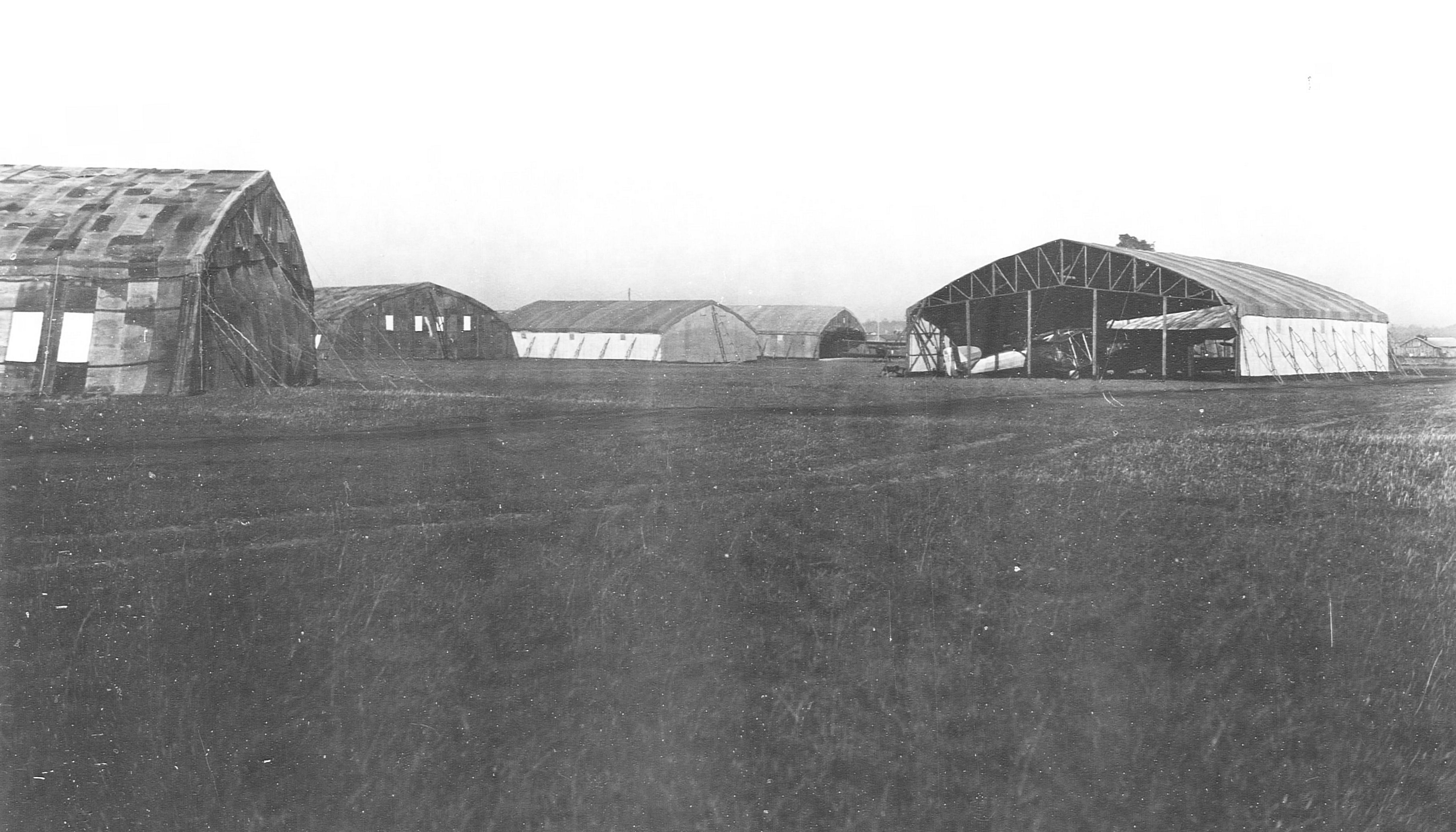 Orly Aerodrome - Airfield Hangars, 1918